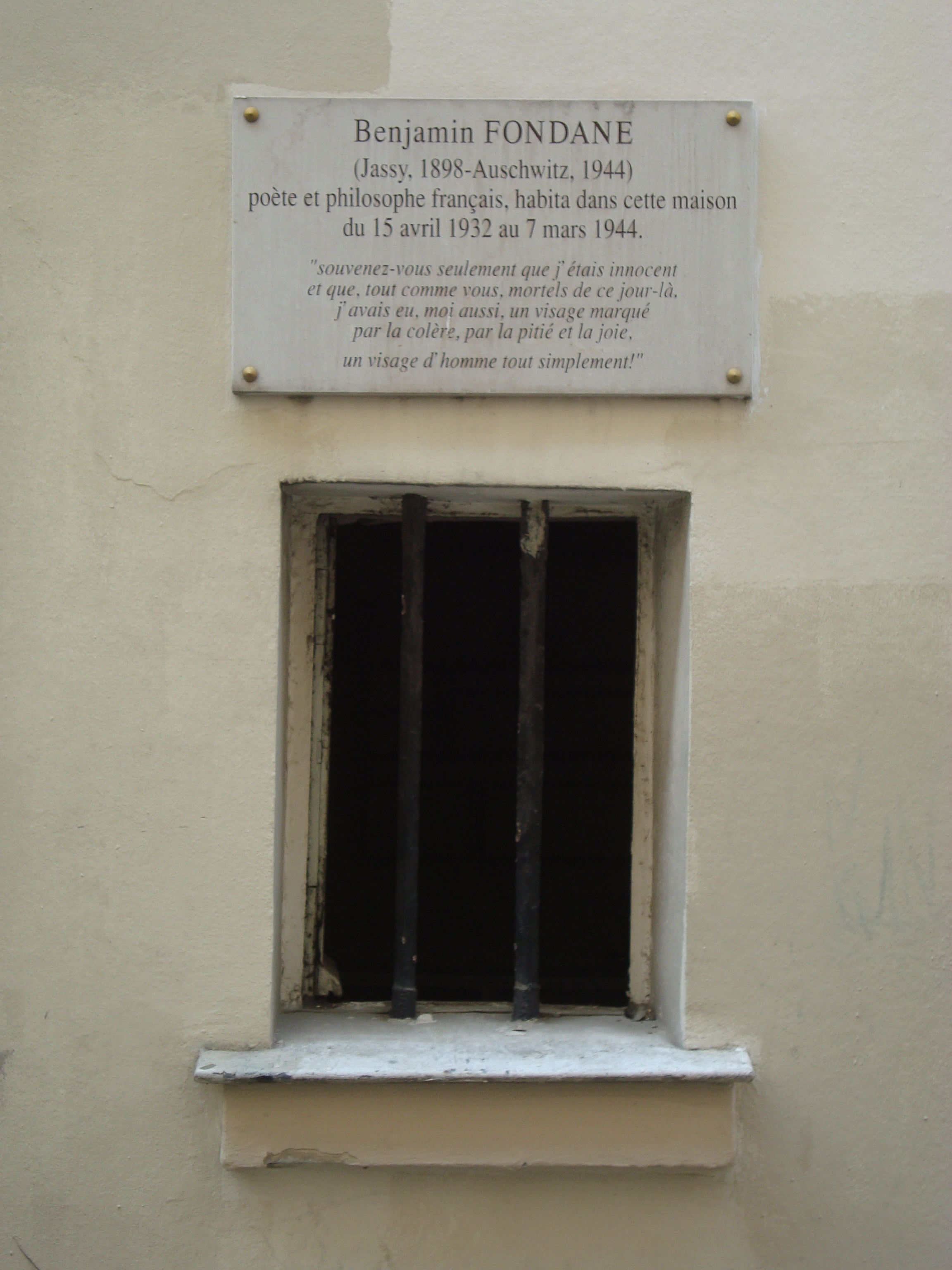 View of the plaque commemorating Benjamin Fondane at rue Rollin in Paris.